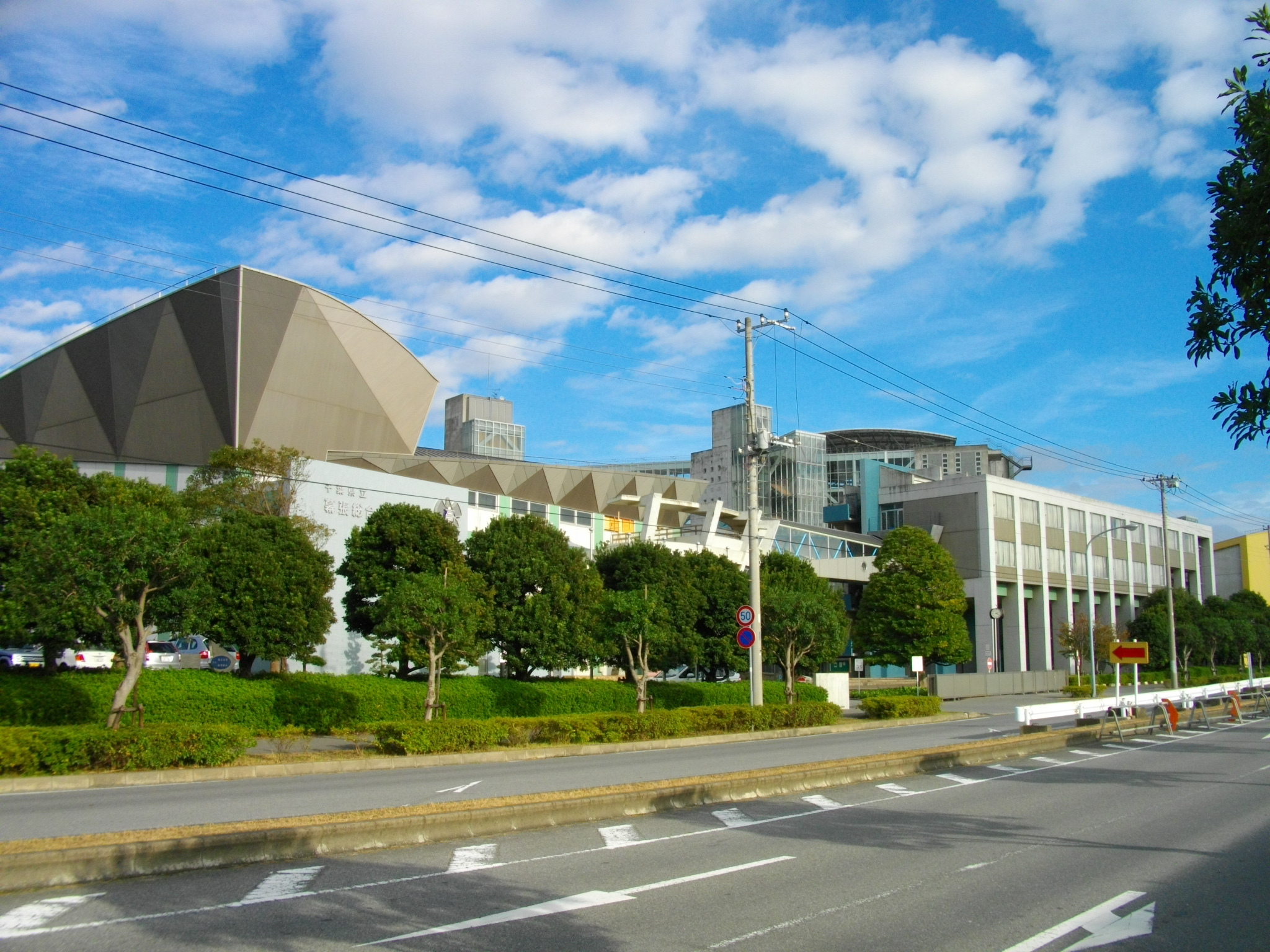 Makuhari Sohgoh High School